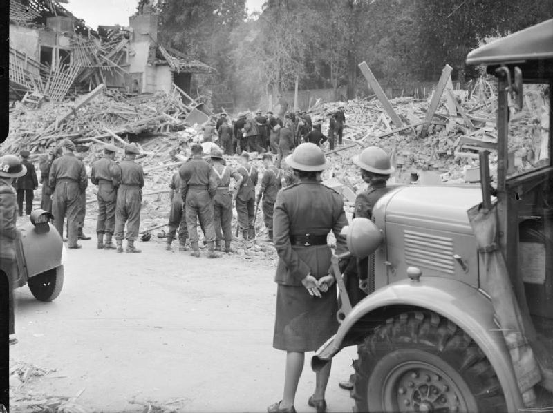 Flying Bomb- V1 Bomb Damage in London, England, UK, 1944 Civil Defence rescue workers search for survivors under a huge pile of rubble and timbers following a V1 attack in the Highland Road and Lunham Road area of Upper Norwood, as men of the Pioneer Corps awaiting instructions on where to dig, look on. In the foreground, women of the American Ambulance Great Britain stand by their vehicle.